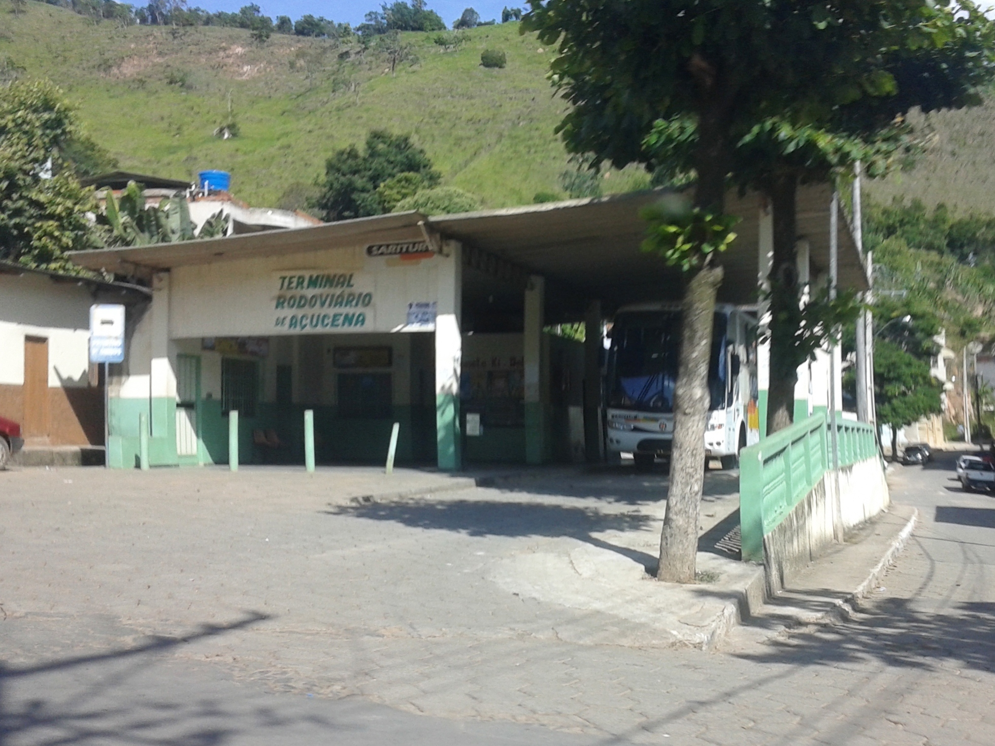 View of the bus station of Açucena, Minas Gerais, Brazil.